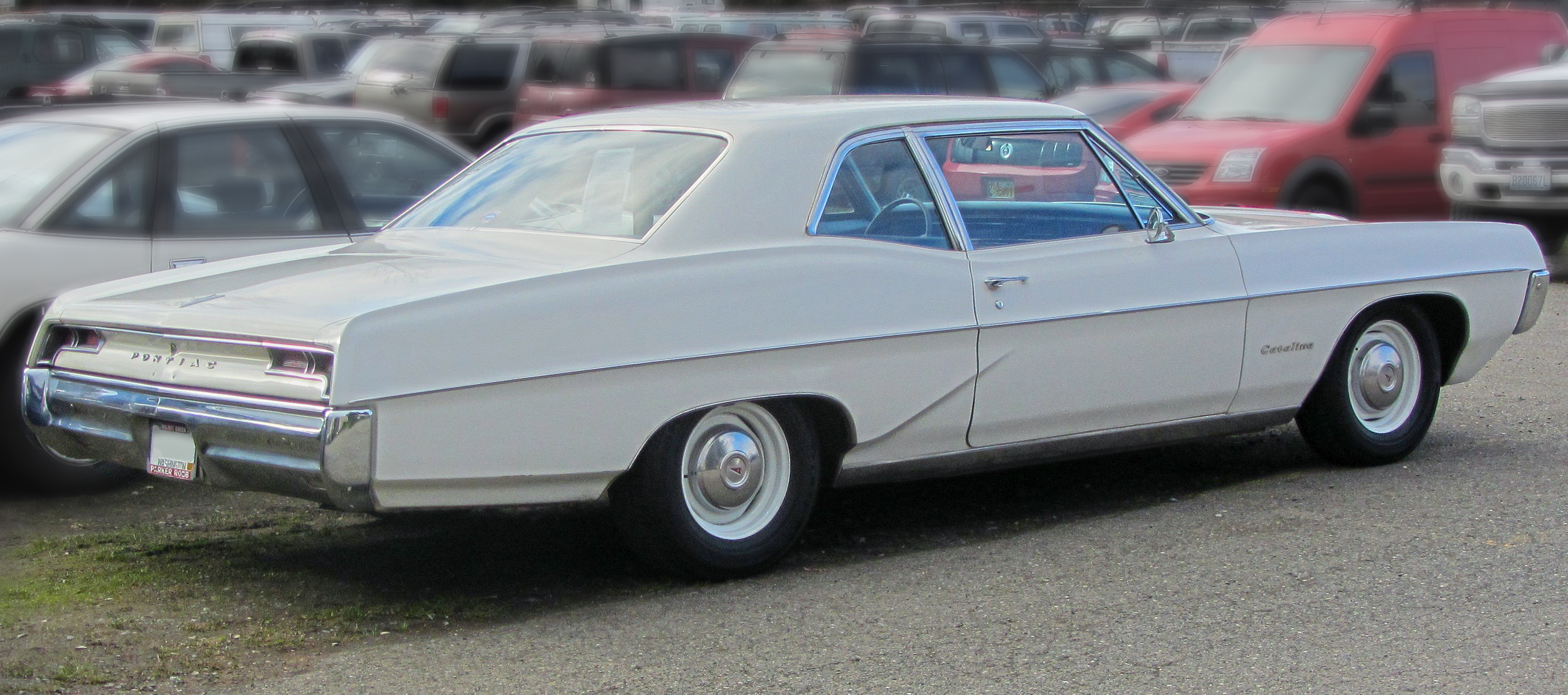 Here is a rarity, a 1967 Pontiac Catalina two door sedan. Seen in the swap meet parking lot at Puyallup, Washington. 5,623 of these (out of 211,405 total Catalinas) were built for 1967. I imagine that the survival rate is also quite low.